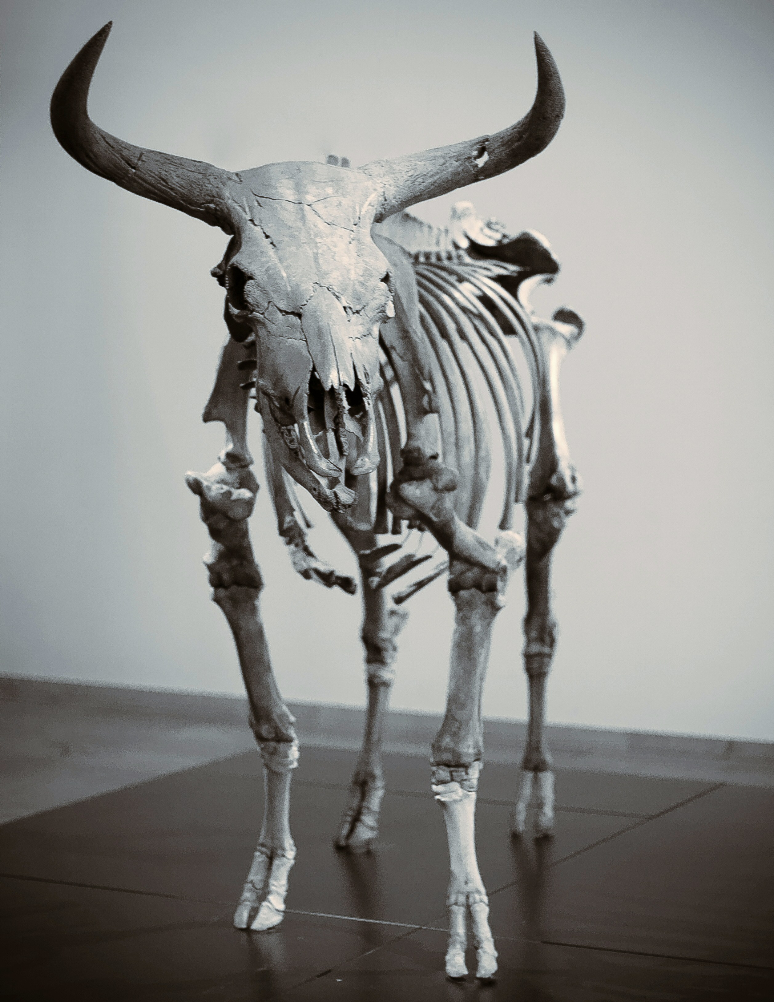 Auerochs bull in Copenhagen, from Vig